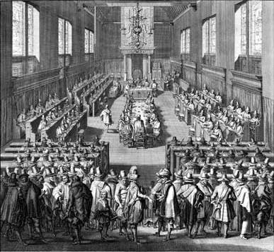 The Synod of Dort in a seventeenth century Dutch engraving